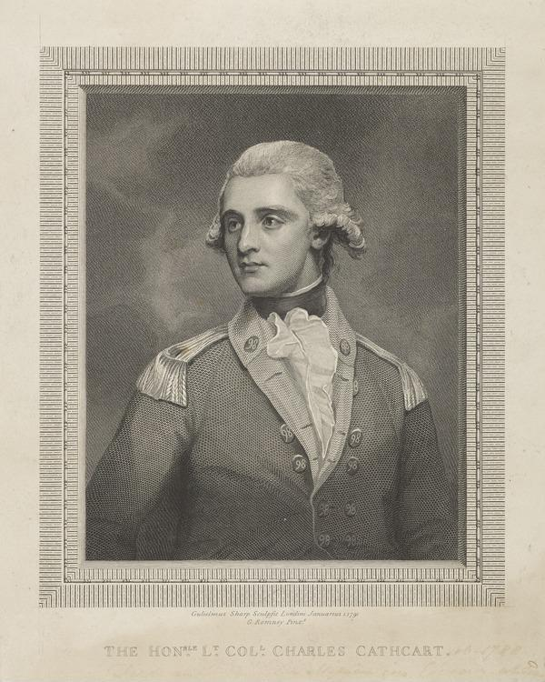 The Honourable Charles Allan Cathcart, 1759 - 1788. Brother of the 1st Earl Cathcart Artist:William SharpEnglish (1749 - 1824) After:George RomneyEnglish (1734 - 1802) Depicted:The Honourable Charles Allan Cathcart Gallery:Scottish National Portrait Gallery(Print Room) Date created: 1791